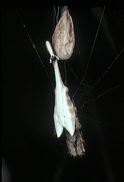 female Arachnura logio with eggsac from Okinawa.